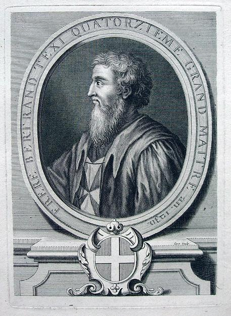 copper engraving, portrait of Bertrand de Thessy (Texis), entitled FRERE BERTRAND TEXI QUATORZIEME GRAND MAITRE